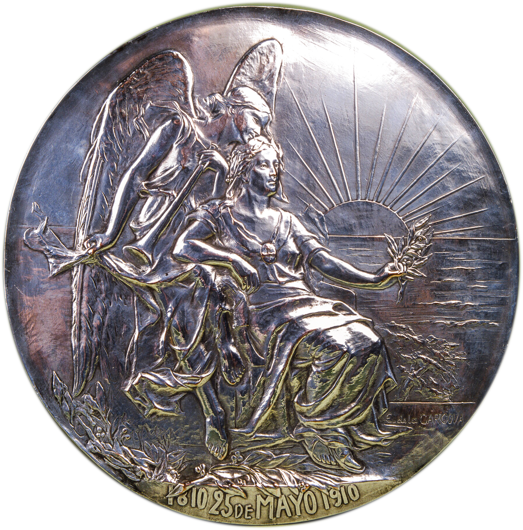 Silver-plated copper medal, designed for the Centennial of Argentina.